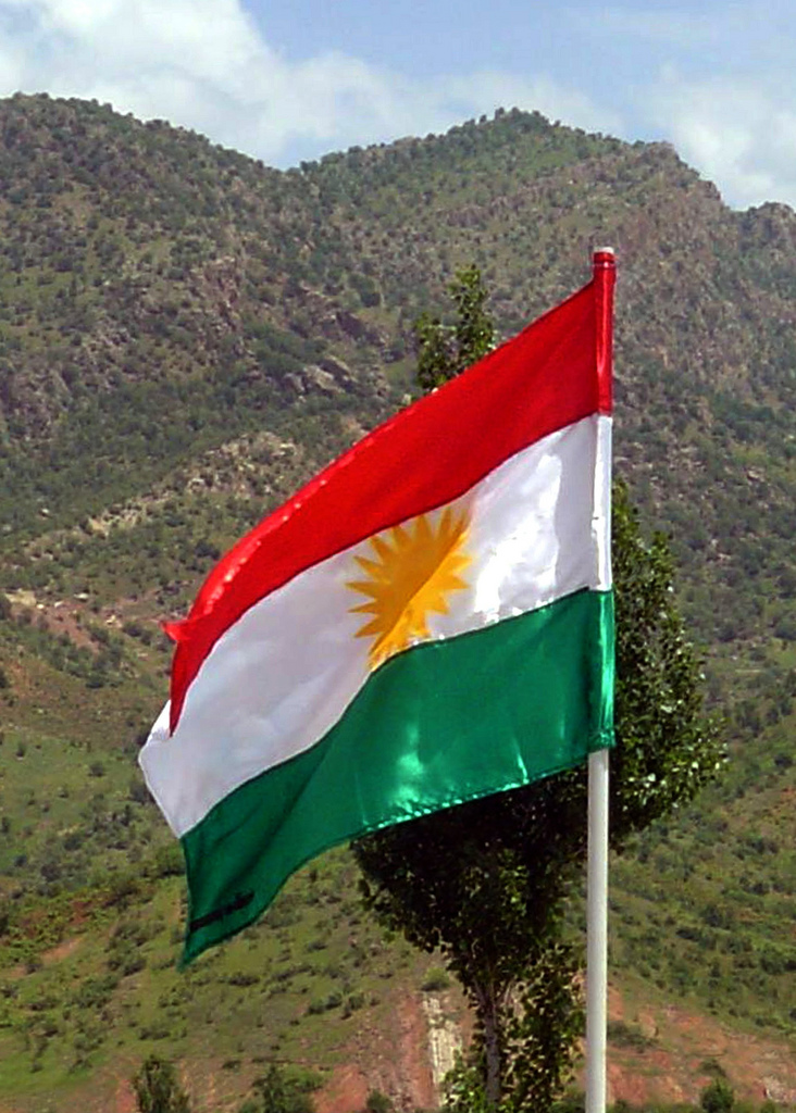 Kurdish flag with the hills around Dohuk, Kurdistan, northern Iraq. US Army Corps of Engineers (USACE) photograph by ACoE photographer Jim Gordon.